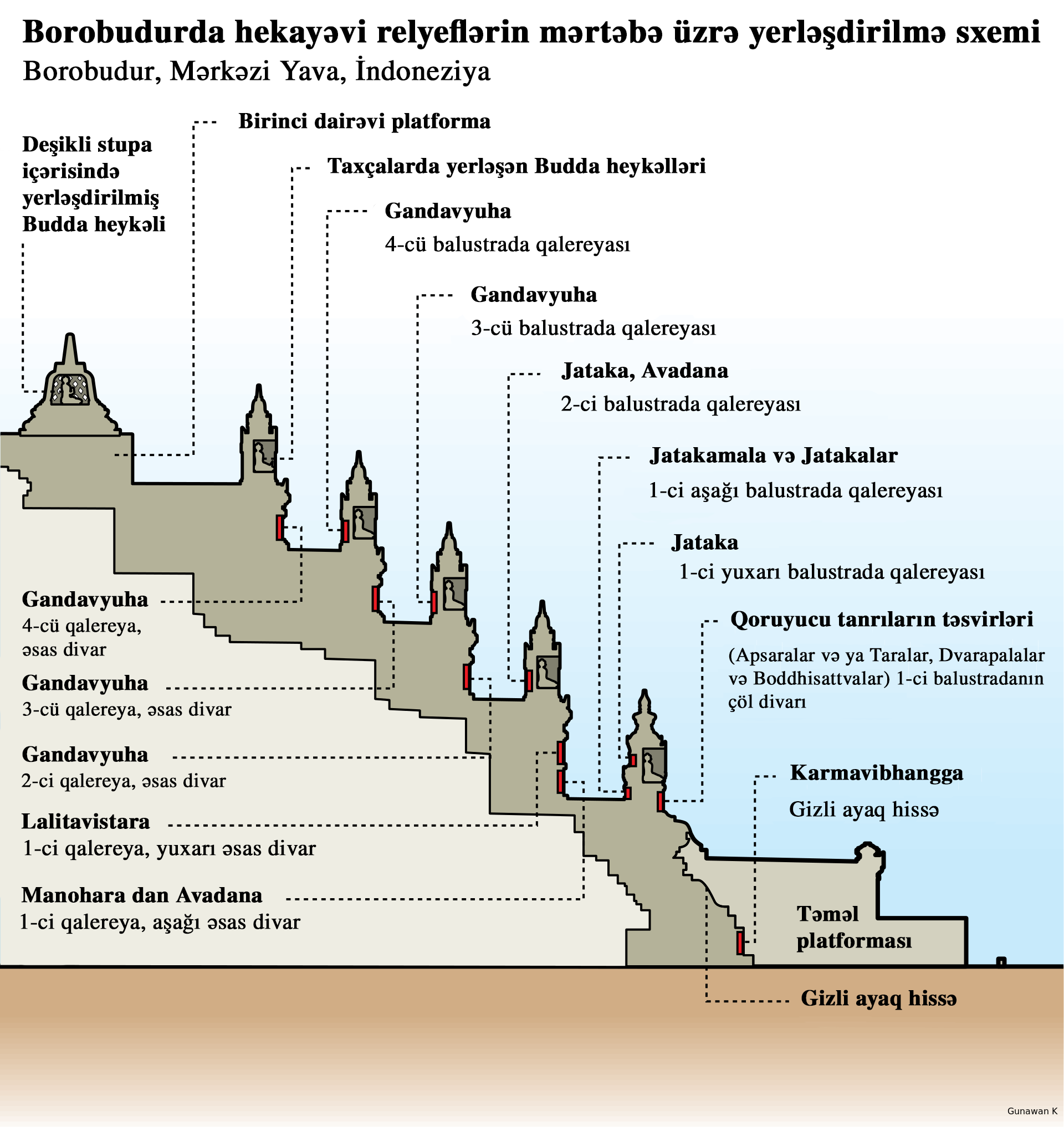 The narrative bas-reliefs stories position on Borobudur wall. All of these stories derived from Buddhist sacred texts such as Lalitavistara, Manohara, Avadana, Jatakamala, Jataka, Gandavyuha, including Karmavibhangga carved along hidden foot covered by additional base encasement.